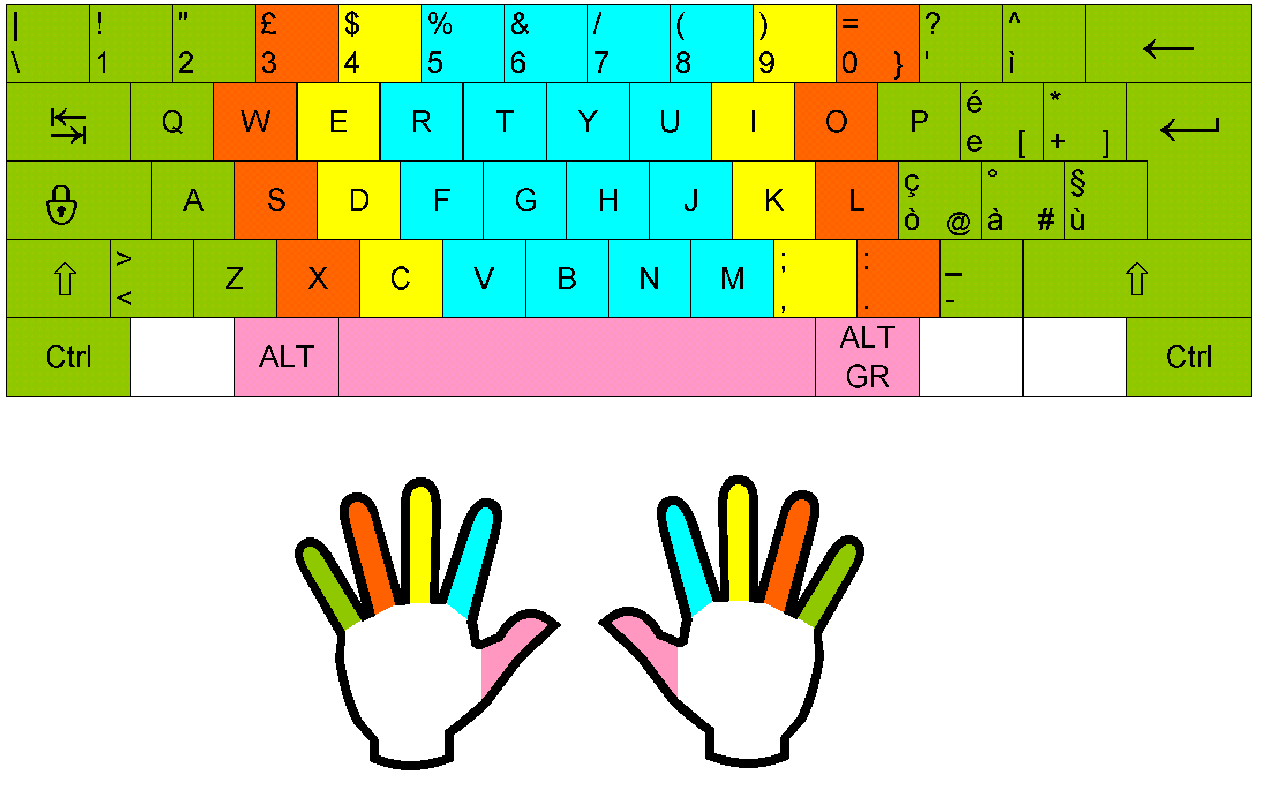 This is the Italian computer keyboard with an explanation for touch-typing.